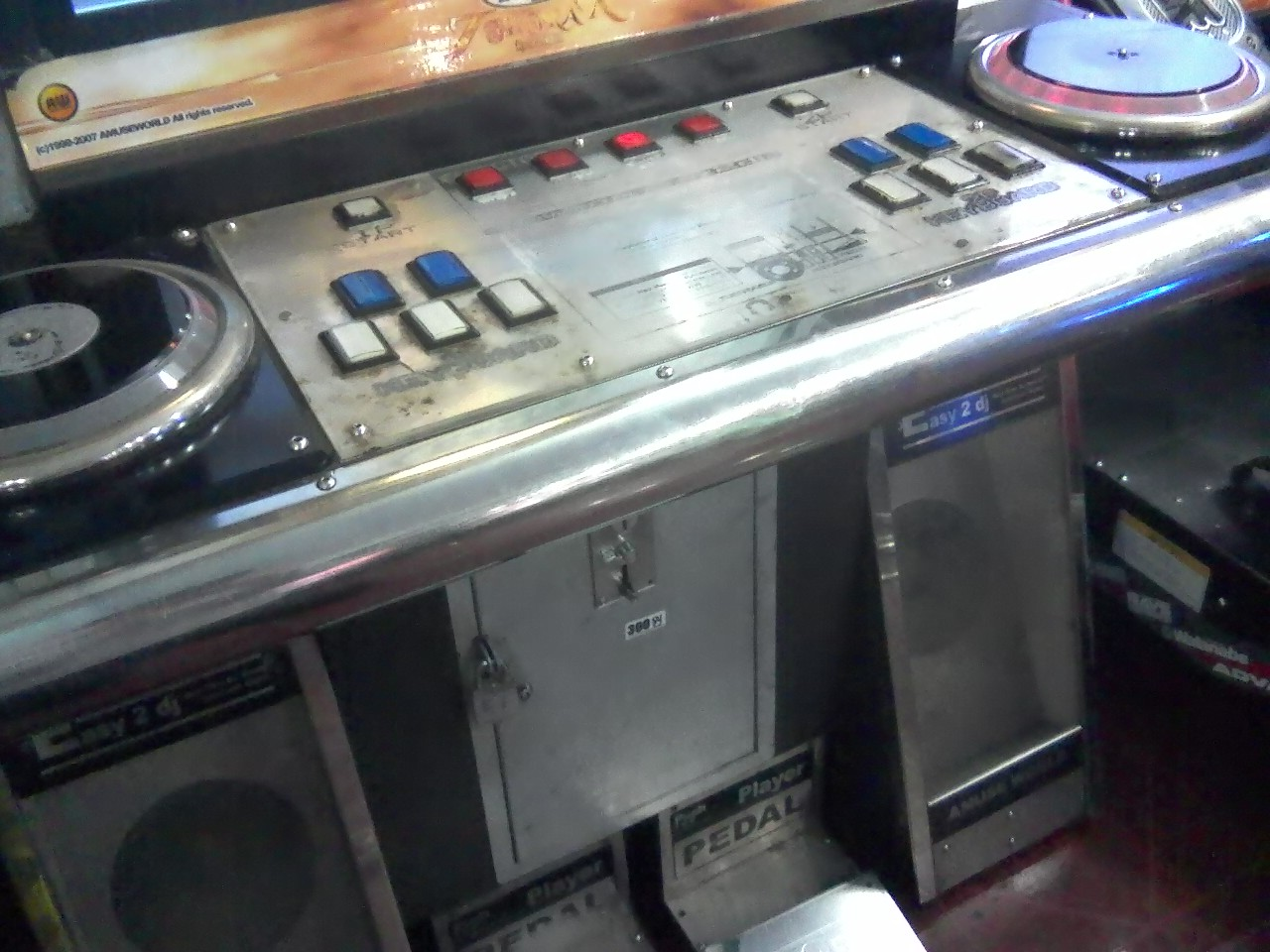 Controller part of EZ2DJ arcade machine.